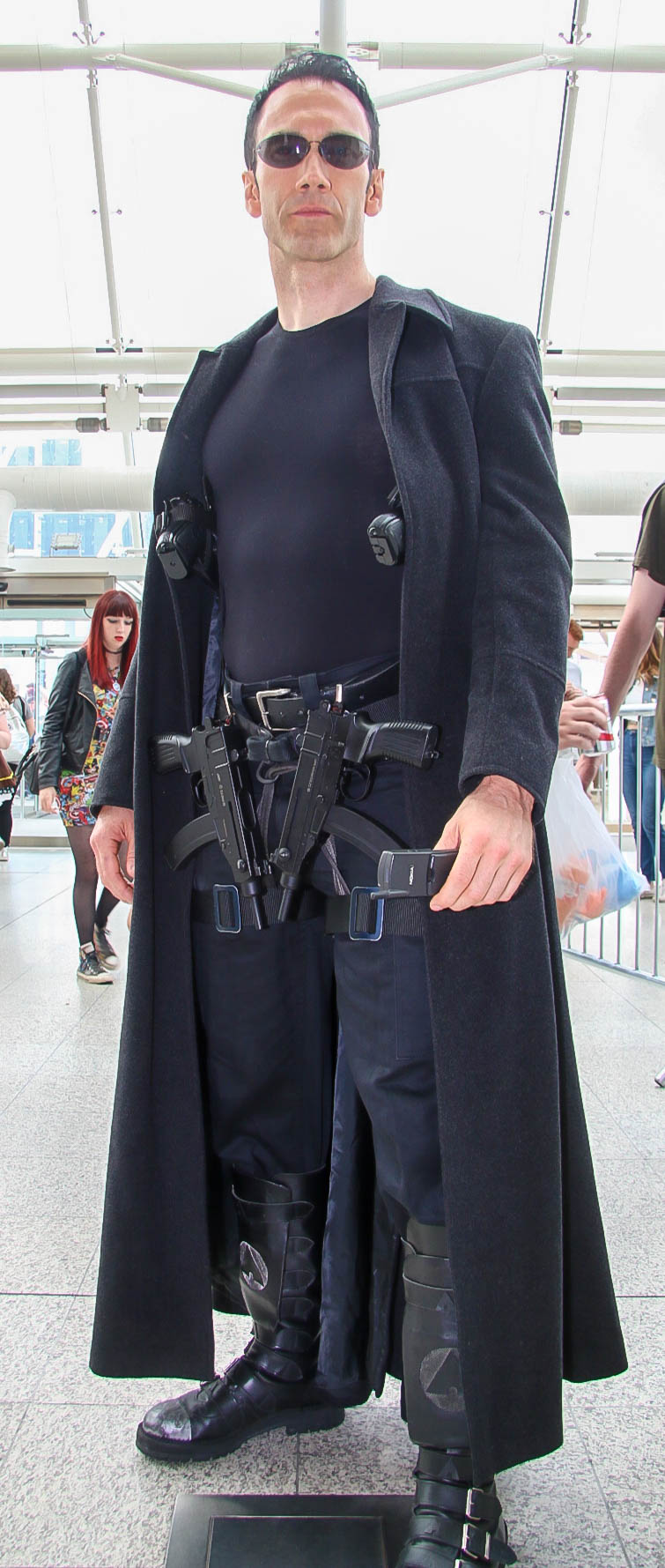 Cosplay at MCM London Comic Con in May 2016.